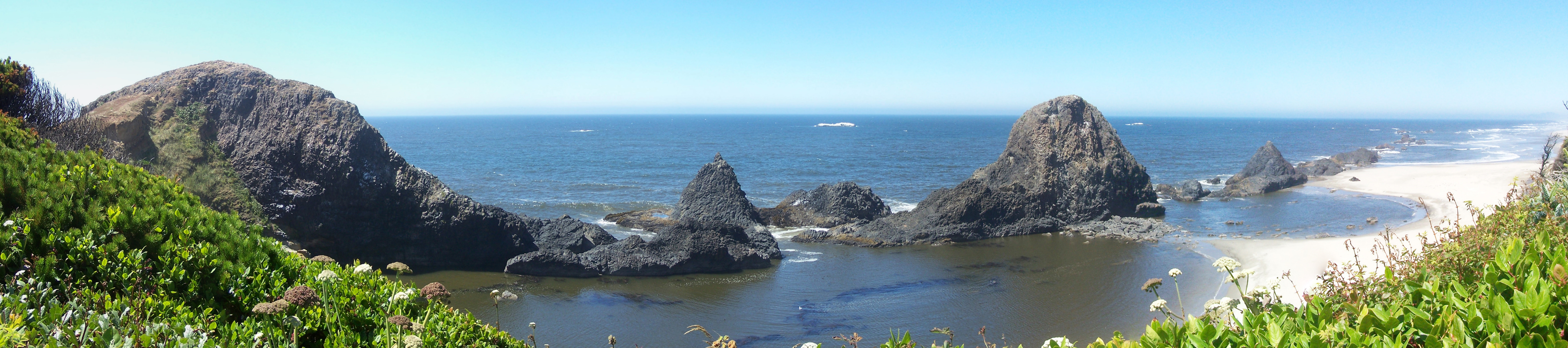 A panorama of the view looking north from Seal Rock State Recreation Site in Seal Rock, Oregon.